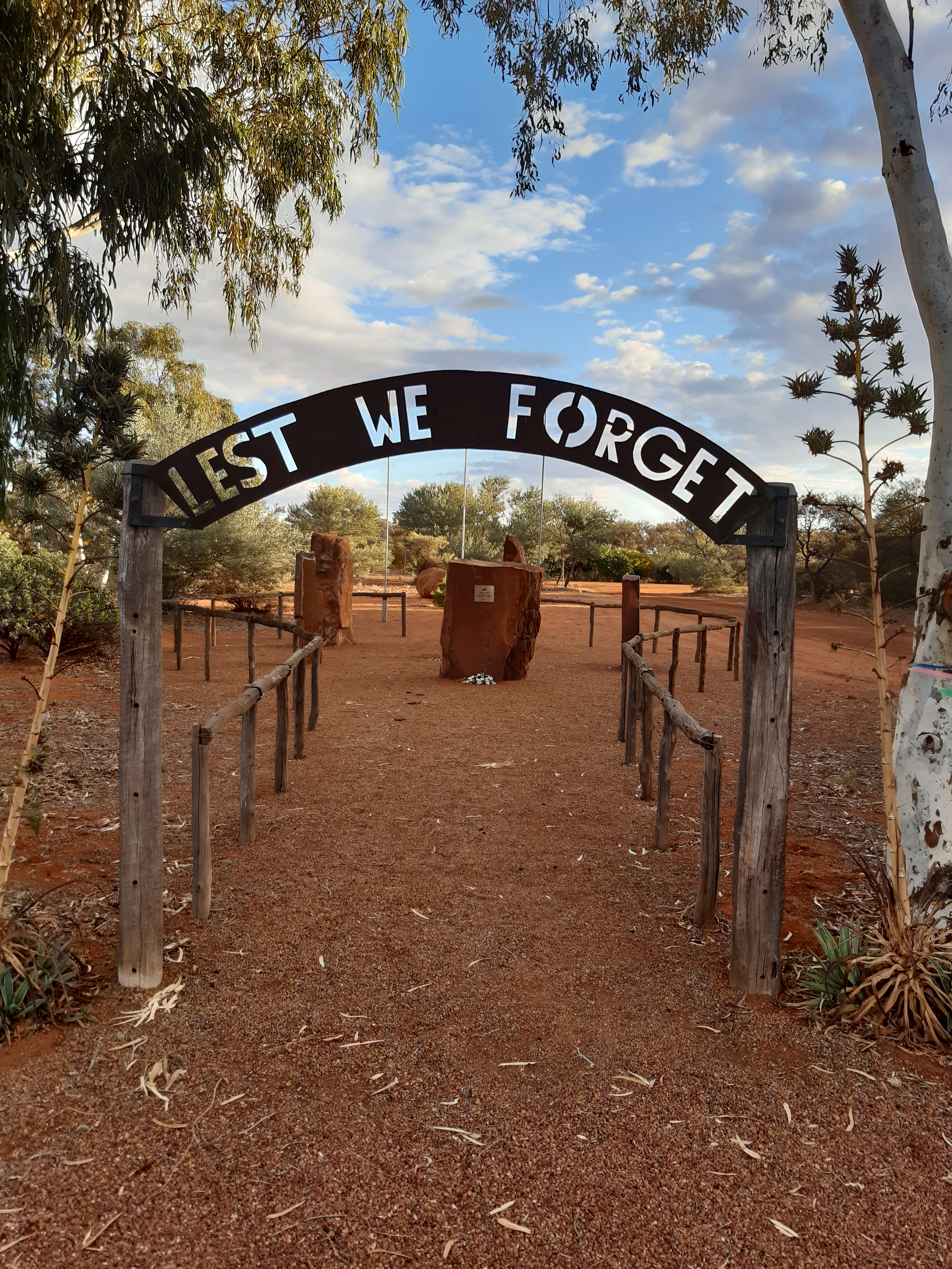 ANZAC memorial park, Murchison Settlement, Western Australia